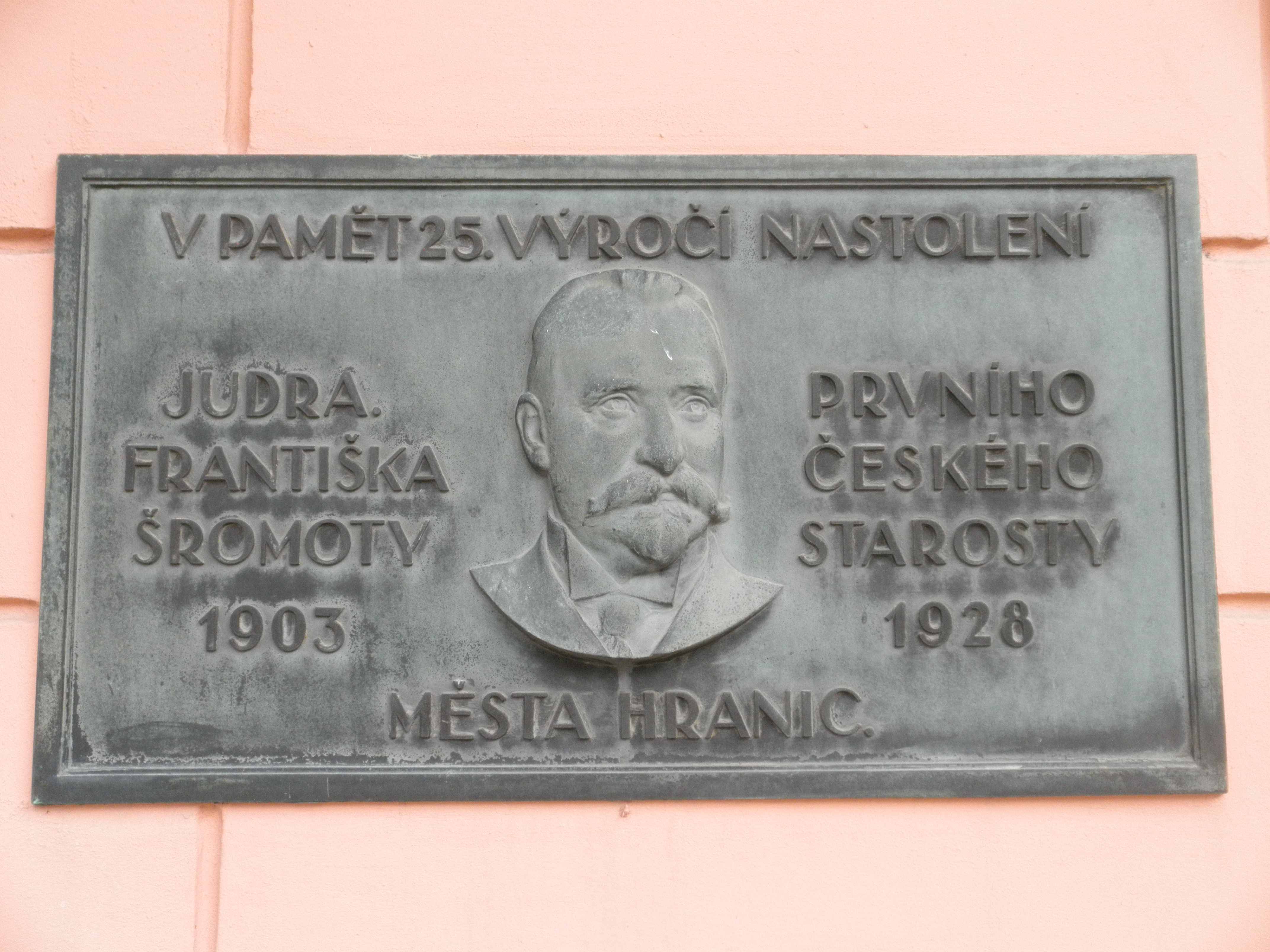 Photo of plaque to František Šromota at town hall in Hranice was made by Ladislav Vlodek in 1928.